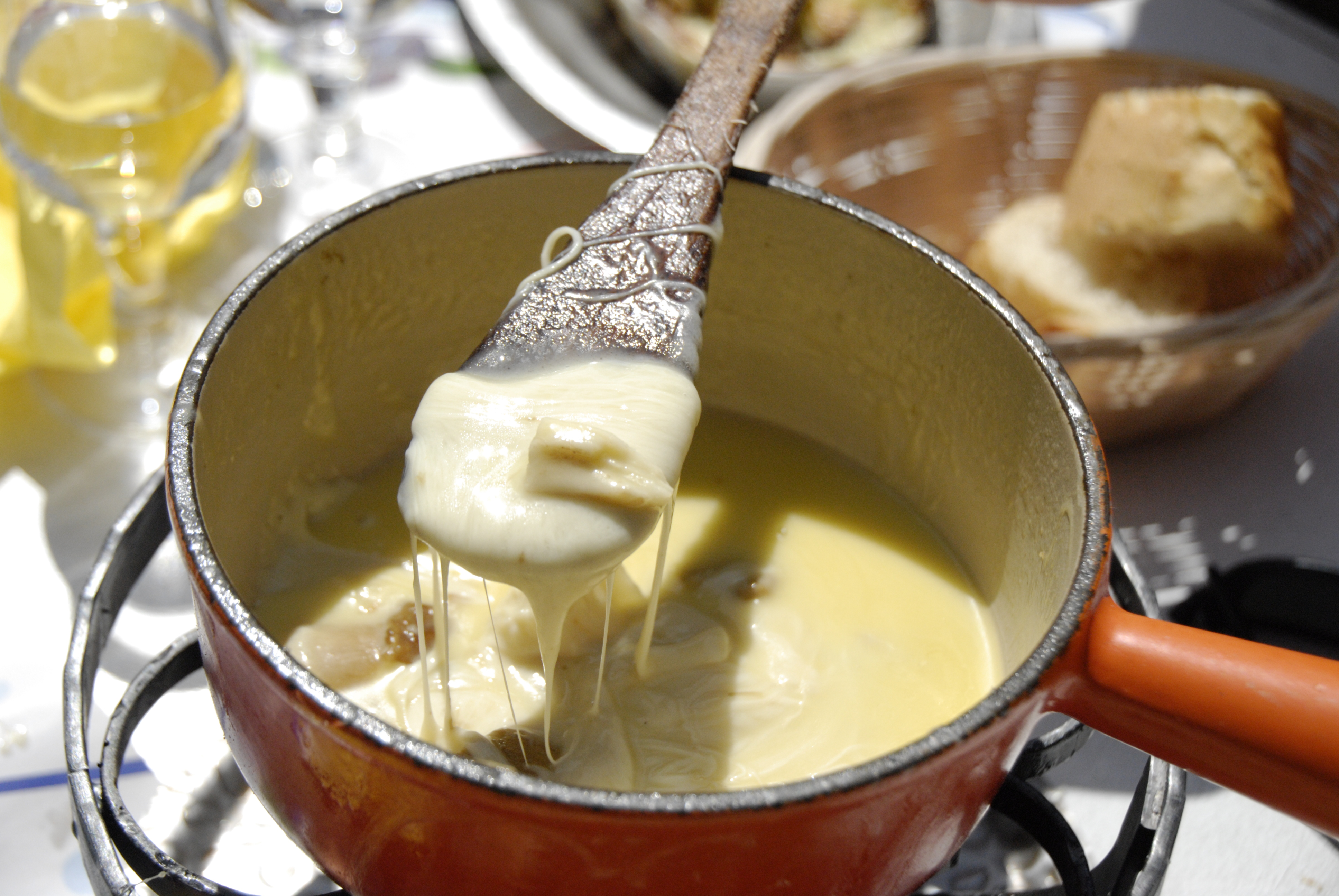 Cheese fondue with Beaufort and mushrooms.